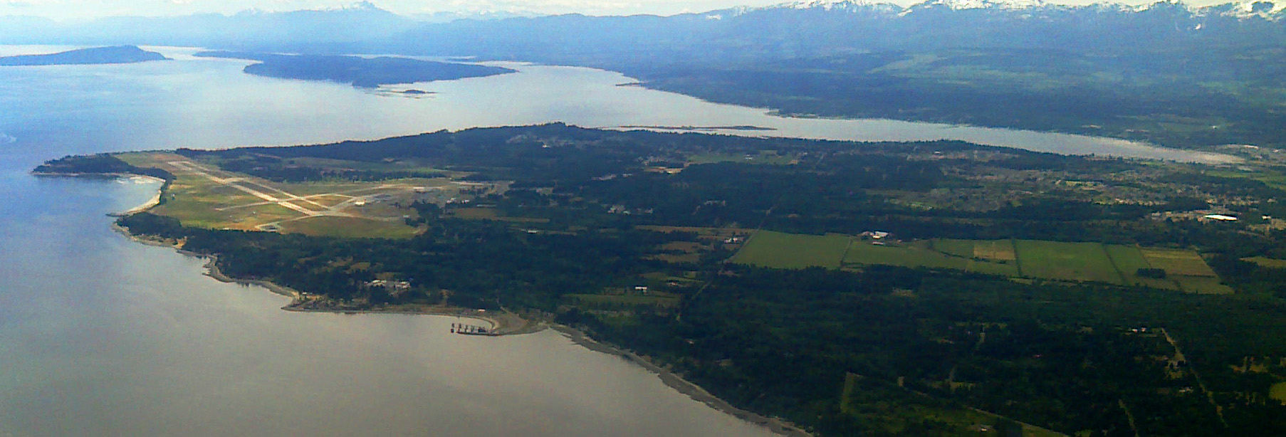 The town of Comox, British Columbia, and environs as seen from the north. The peninsula on which Comox sits is surrounded on three sides by water: to the west (right), the Courtenay River Estuary; to the south (straight ahead), Comox Bay; and to the east (left), the Strait of Georgia. Comox enjoys a temperate climate as a result. The airport of CFB Comox, also used by commercial aircraft, can be seen on the left side of the peninsula. The town of Comox itself is on the shore of Comox Bay, protected from prevailing south-easterly winds by the sandy hook of the Goose Spit. Denman and Hornby Islands can be seen to the south, and the Beaufort Mountain Range of Vancouver Island extends into the distance.